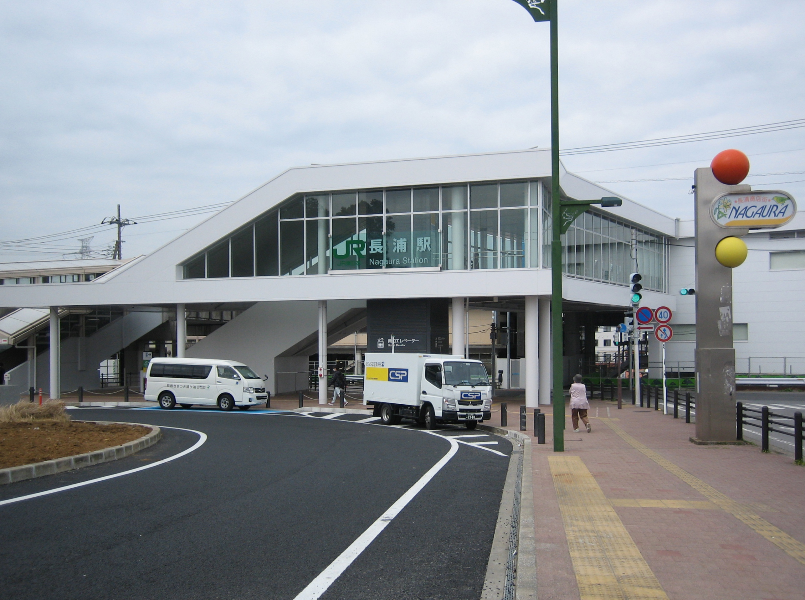 The south side of Nagaura Station on the Uchibo Line in Chiba Prefecture, Japan